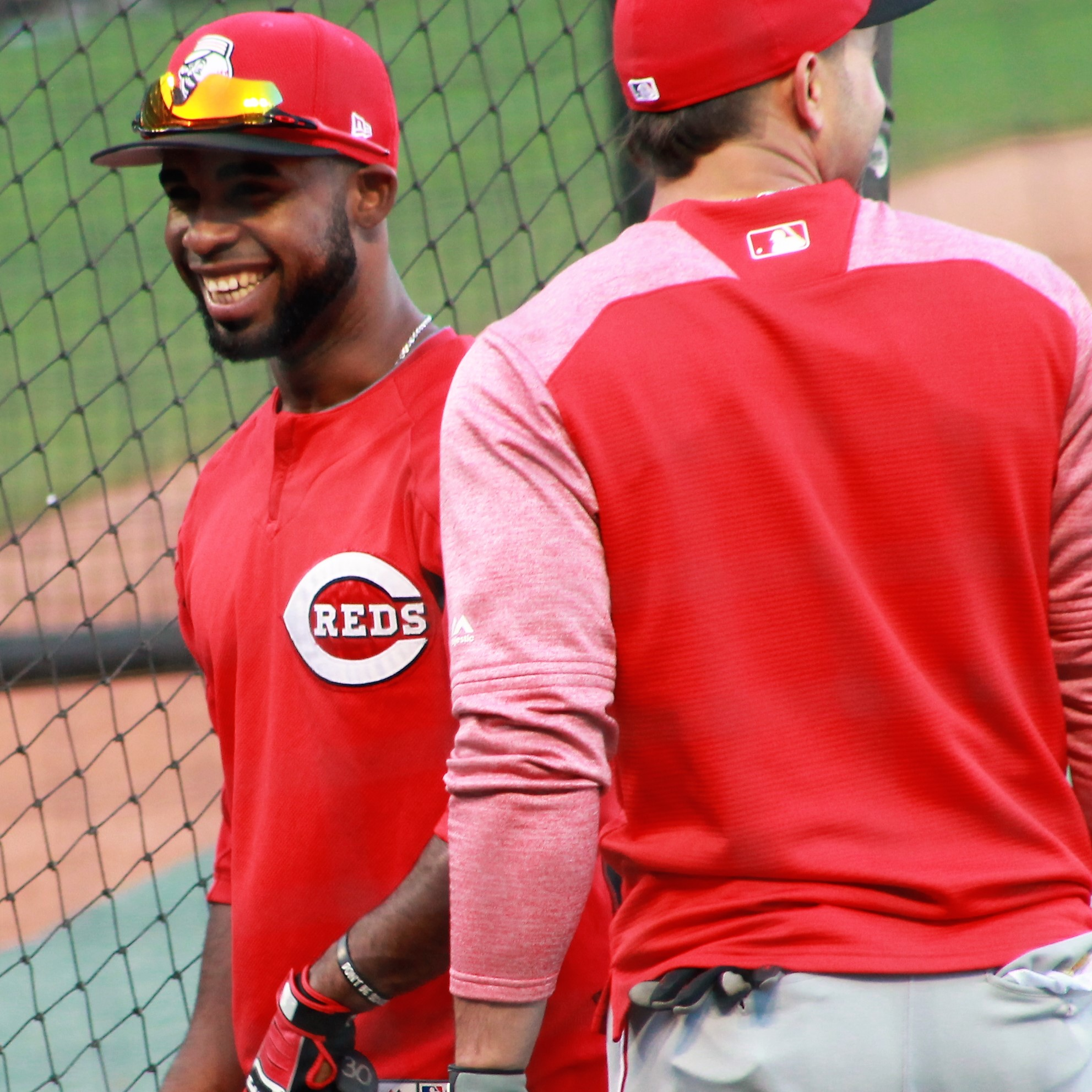 Professional baseball player Arismendy Alcántara during a May 2017 game in San Francisco.